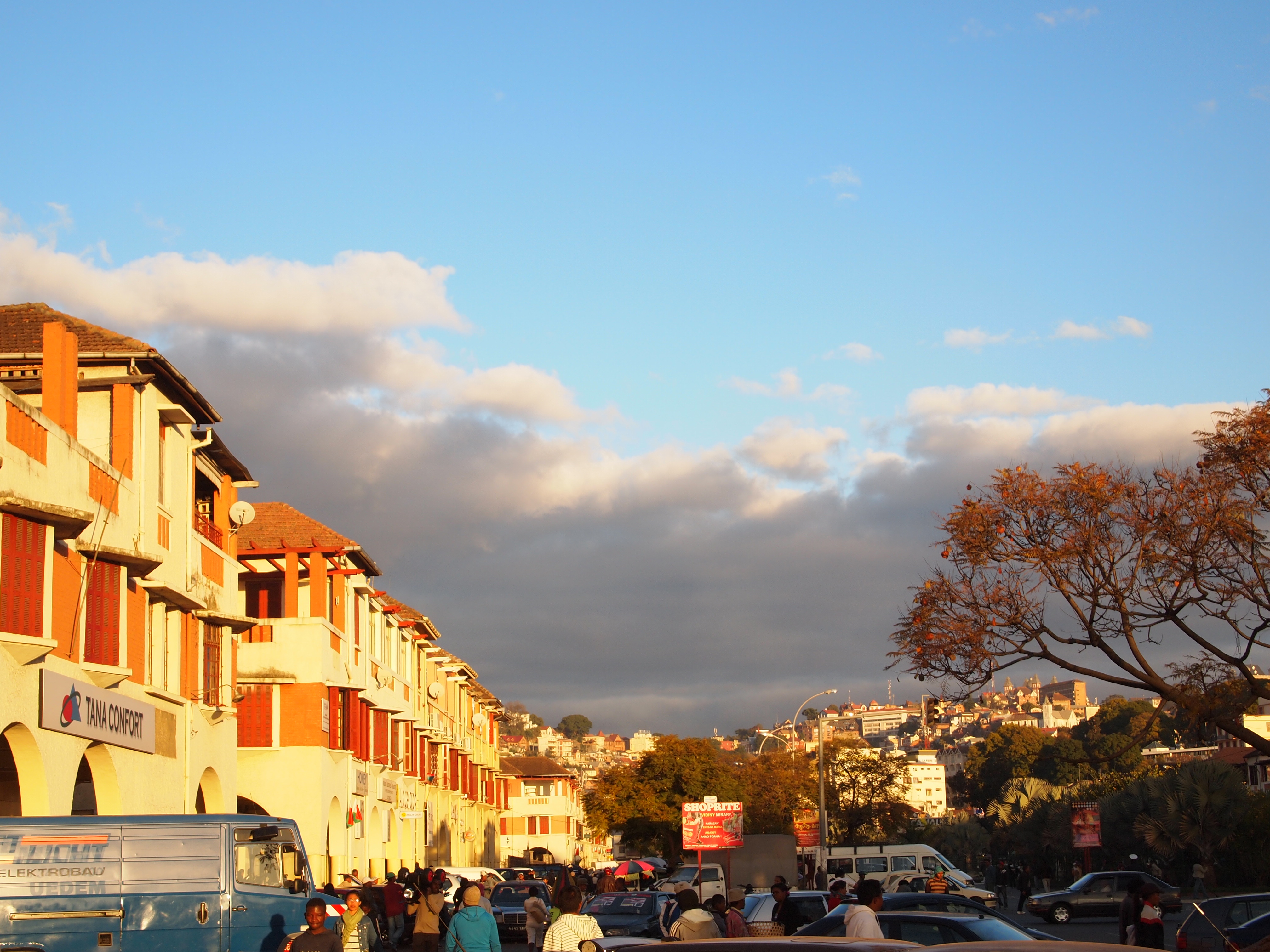 Avenue de l'Independence Antananarivo Madagascar